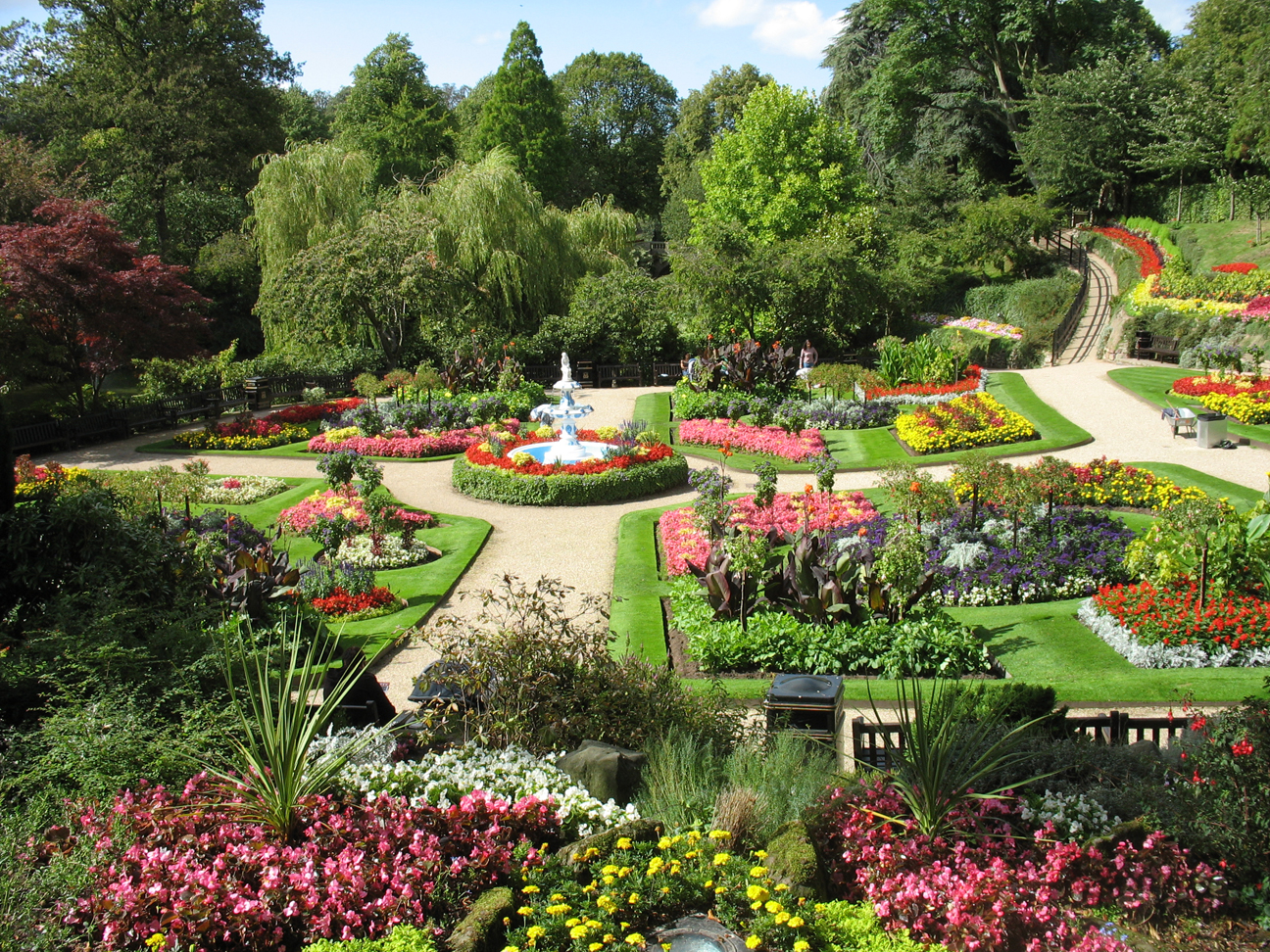 The Dingle, located in the centre of The Quarry, in Shrewsbury, Shropshire. Photo by Chris Bayley (User:Chrisbayley) using a Canon PowershotA610 (1-9-06)